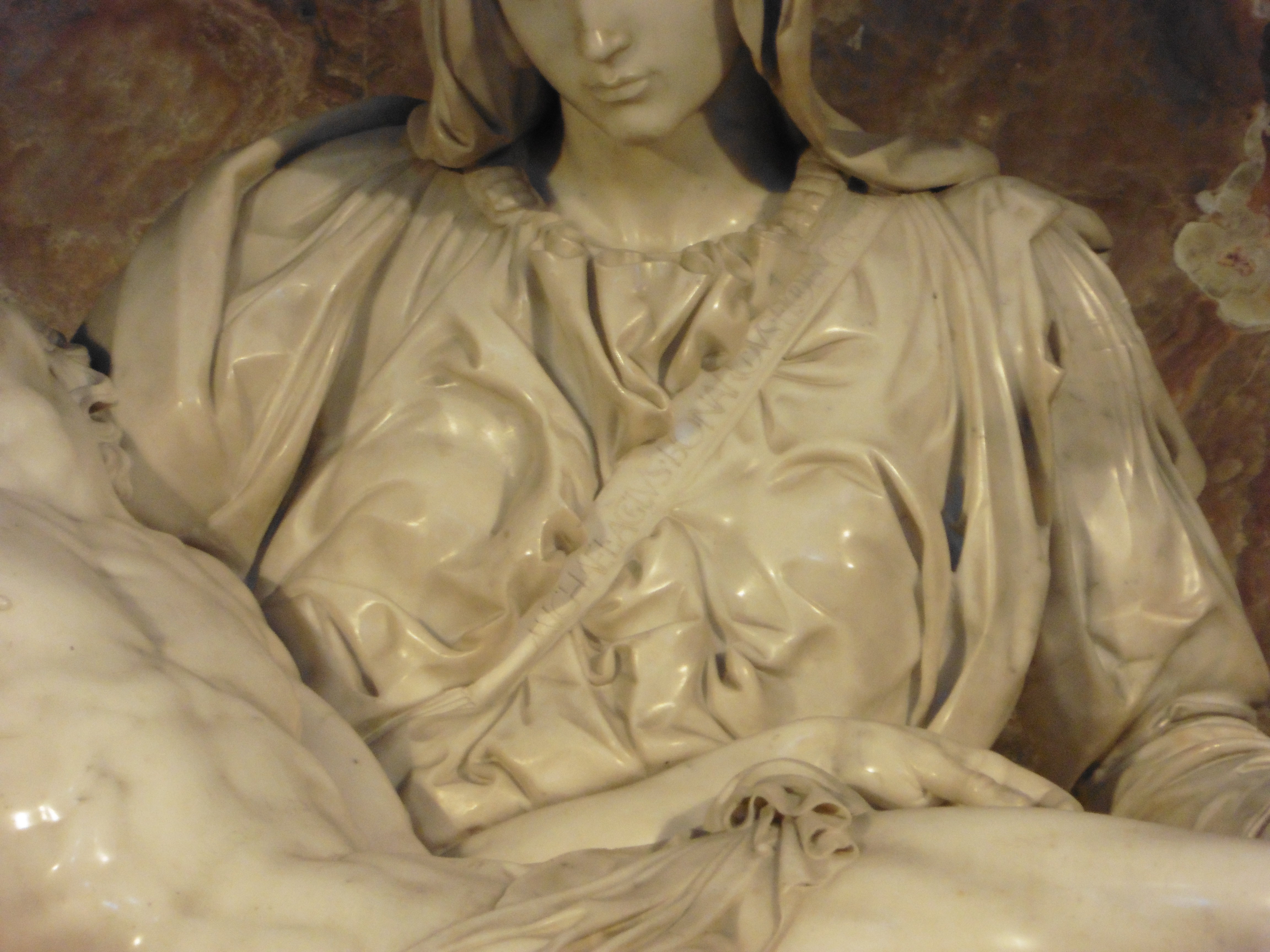 Pietà (Michelangelo), author's signature "MICHEL ANGELUS BONAROTUS FLORENT FACIBAT"